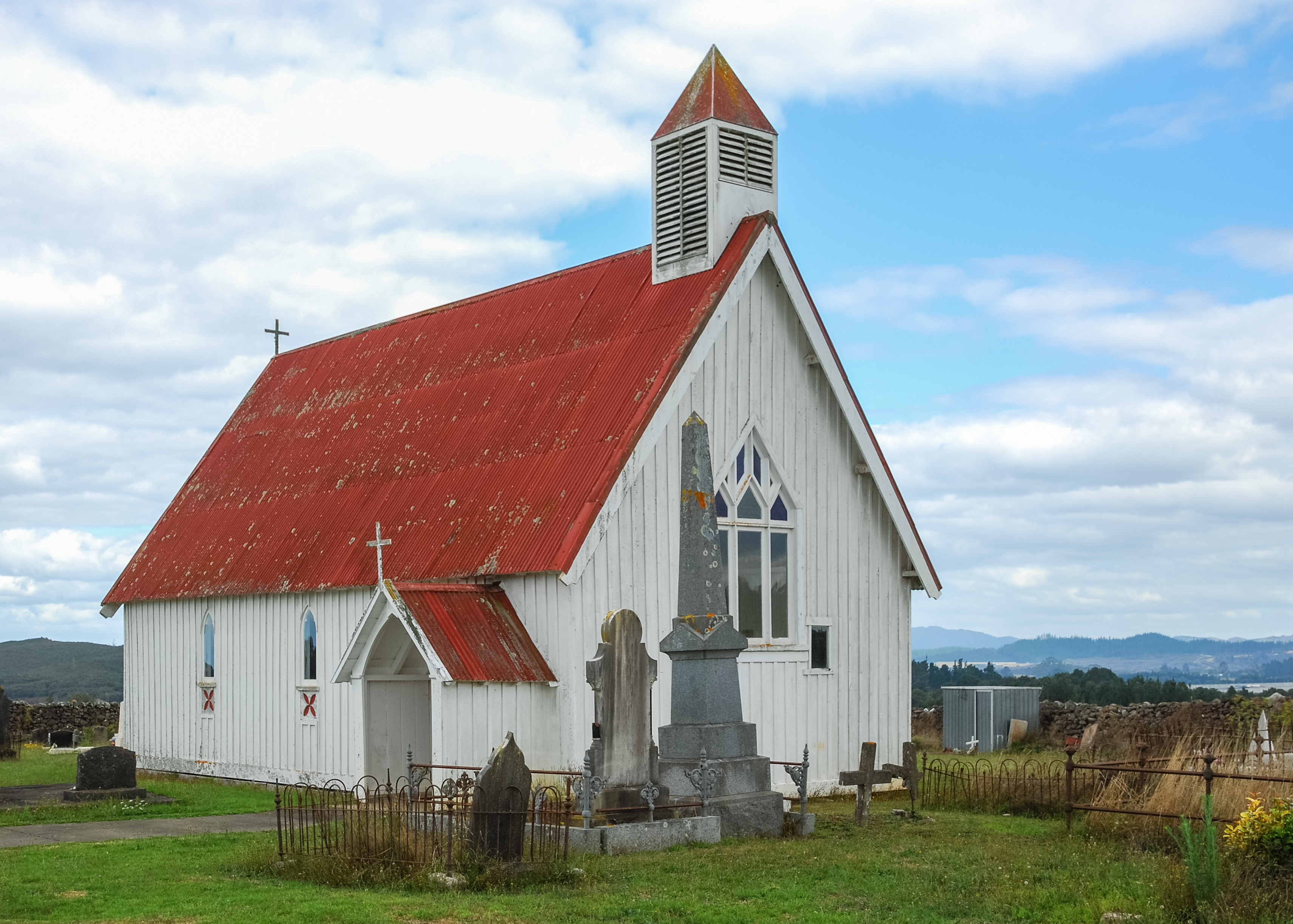 The church of Saint Michael in Kaikohe, Far North District. The church is notable for standing near the location of the Battle of Ohaeawai.